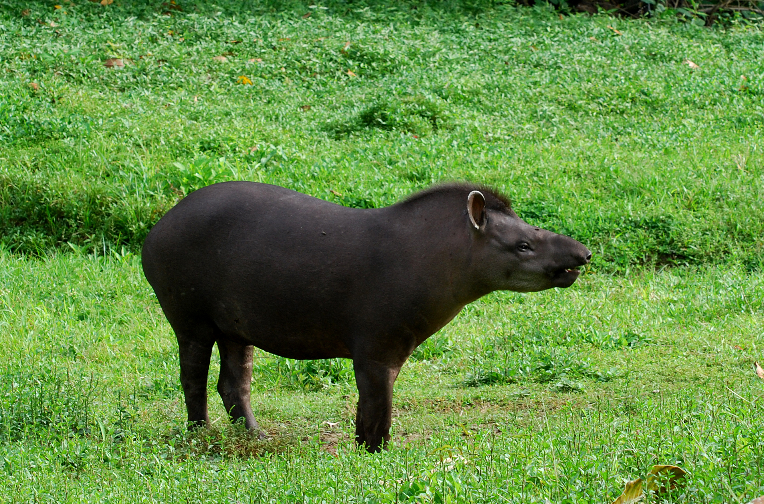 Tapiridae: Tapirus terrestris (Brazilian or Lowland Tapir), at Yarina Lodge, near Rio Manduro, Ecuadorian Amazon.